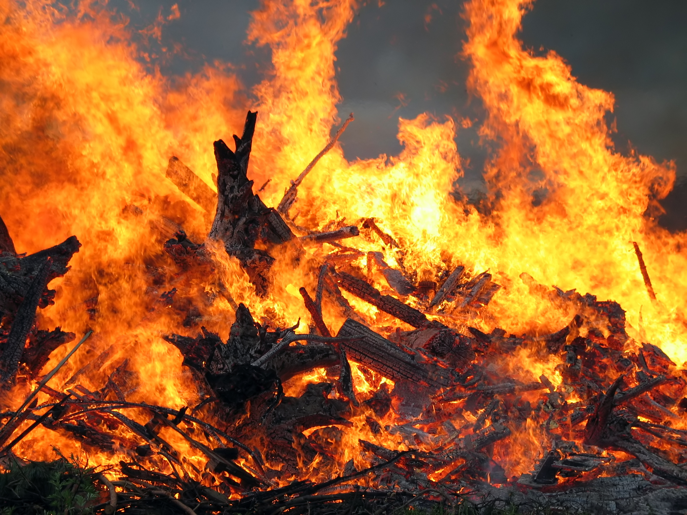 Midsummer festival bonfire closeup (Mäntsälä, Finland)